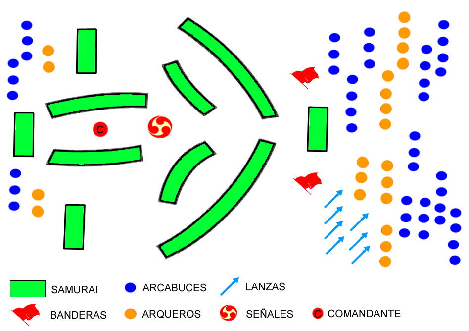 Samurai formation called "Kakuyoku", used during Azuchi-Momoyama period of japanese history.